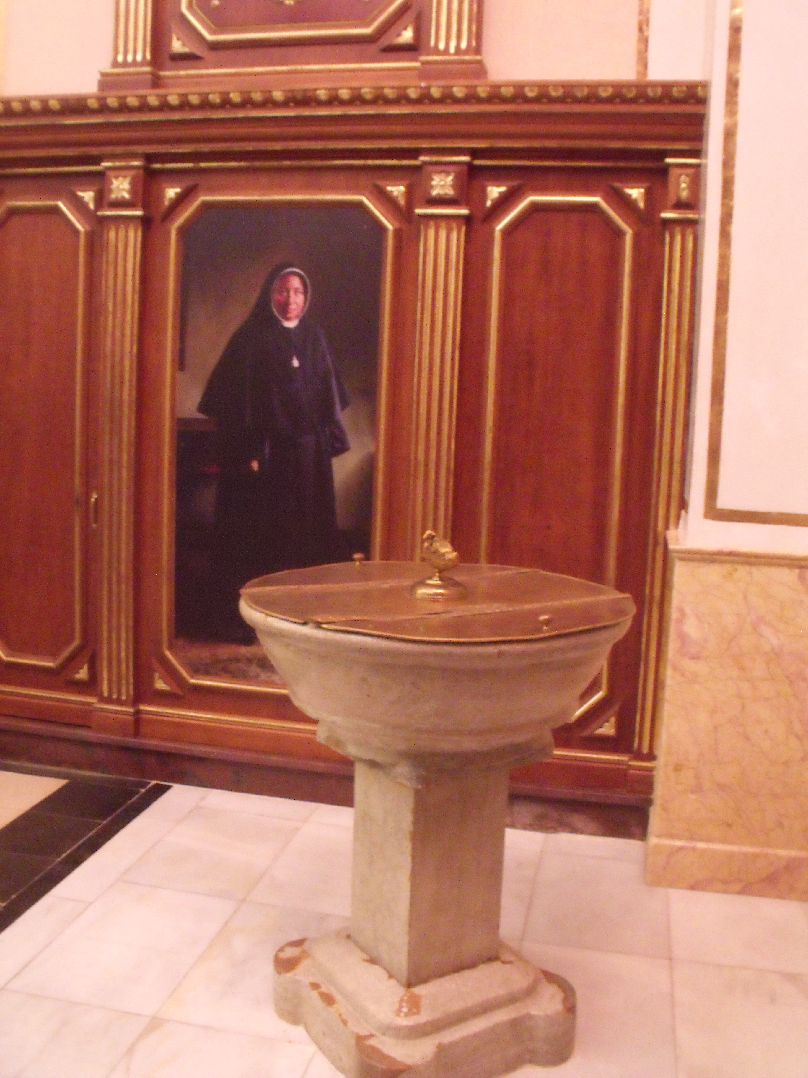 Parrish church of Almenara.